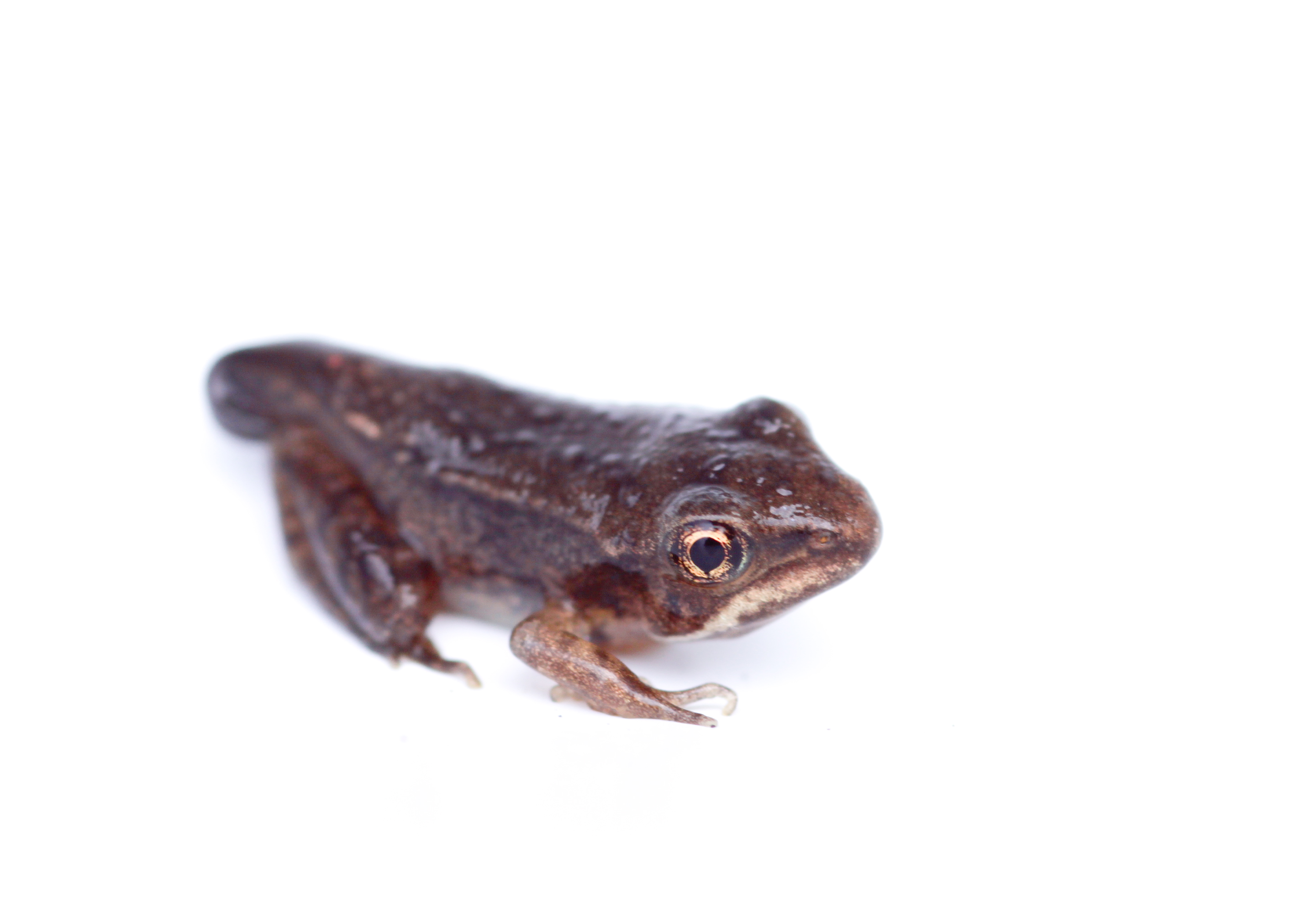 Wood frog early metamorph